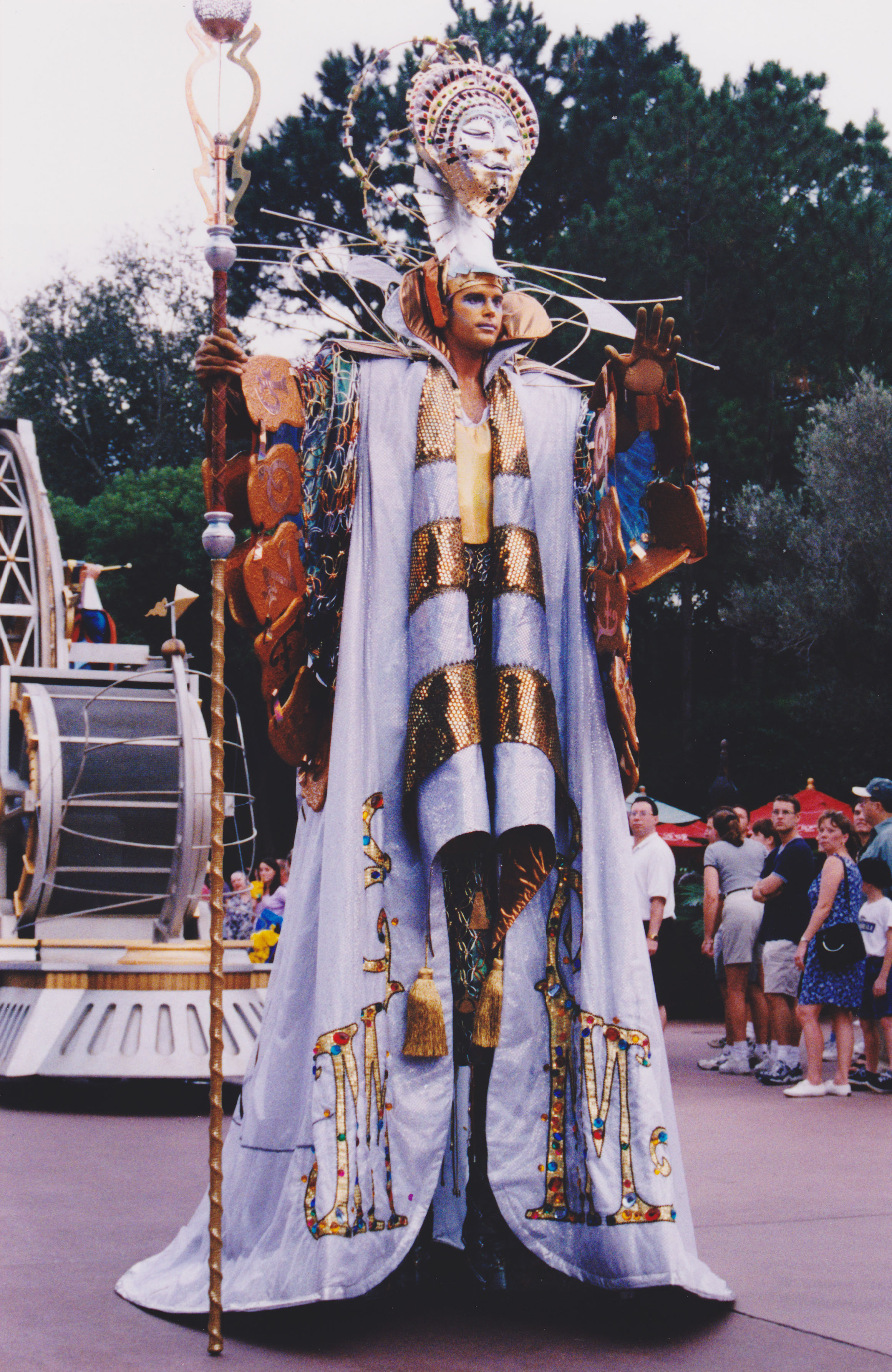 The Sage of Time from Tapestry of Nations Parade at Epcot during the Millennium Celebration in the year 2000.